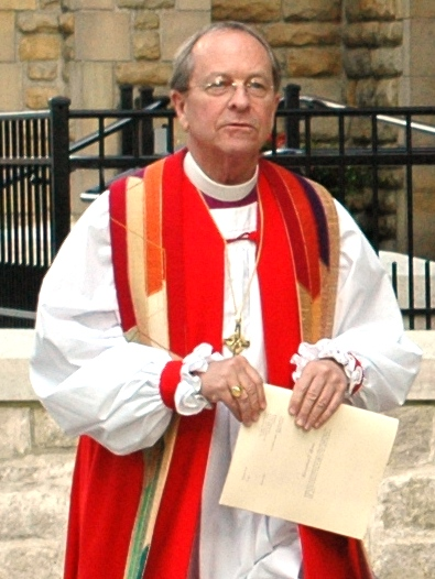 Bishop Gene Robinson of New Hampshire at Trinity Church, Columbus, Ohio, on June 16, 2006, during the 75th General Convention of the Episcopal Church. Image cropped and color adjusted by Angr.